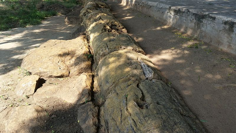 Fossil Tree at Sattanur Village, Perambalur District, Tamilnadu, India